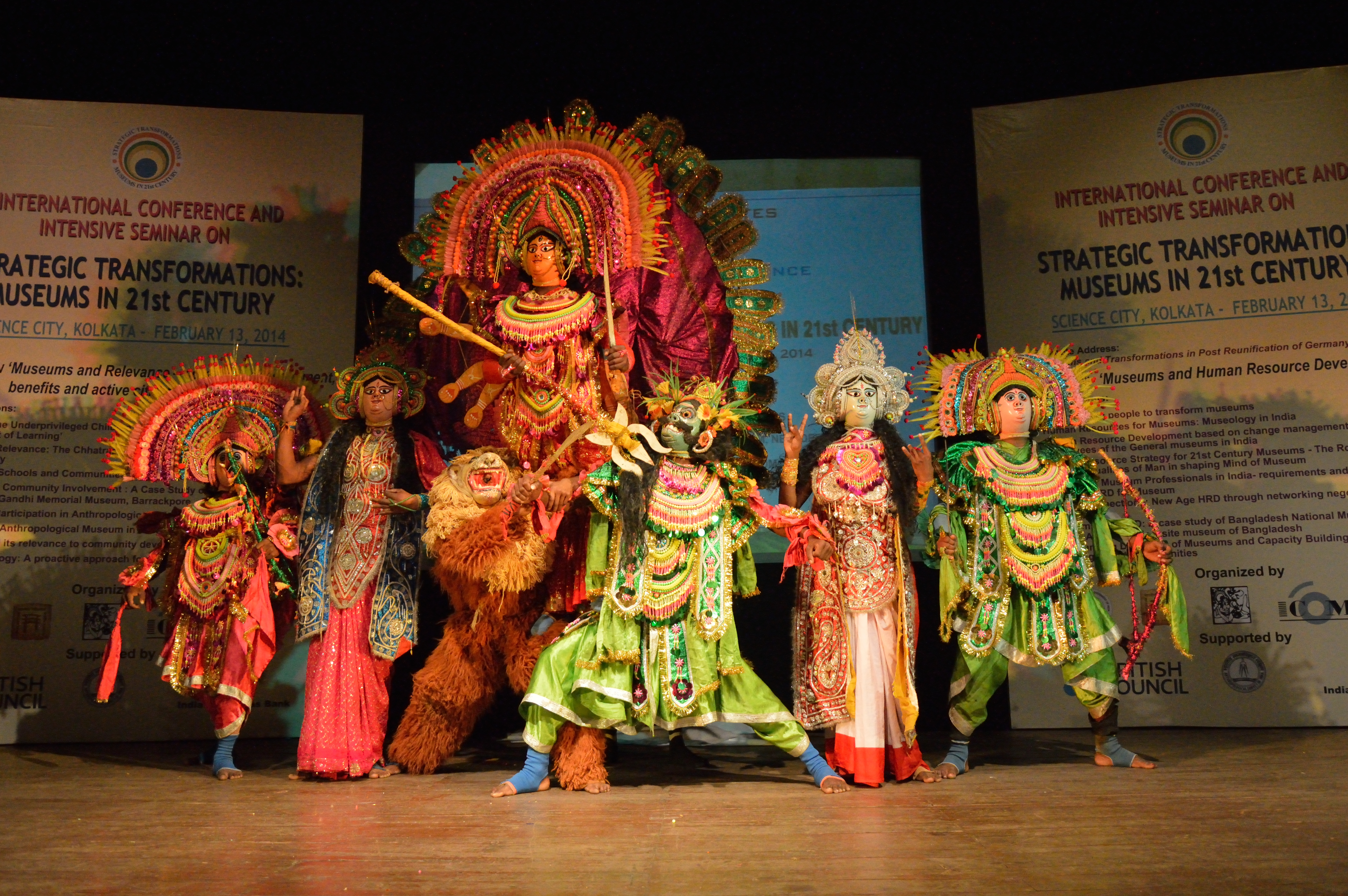 The 'Mahisasuramardini' - a 'Chhau' dance has been performed by the 'Royal Chhau Academy' group from Purulia, during an international conference and intensive seminar on 'Strategic Transformations: Museums in 21st Century' that organised by the National Council of Science Museums, India in collaboration with Indian Museum, Kolkata, National Museum, New Delhi (Ministry of Culture Govt. of India) and Indian National Committee of ICOM. It was held at Mini Auditorium, Science City, Kolkata on 13 February, 2014.